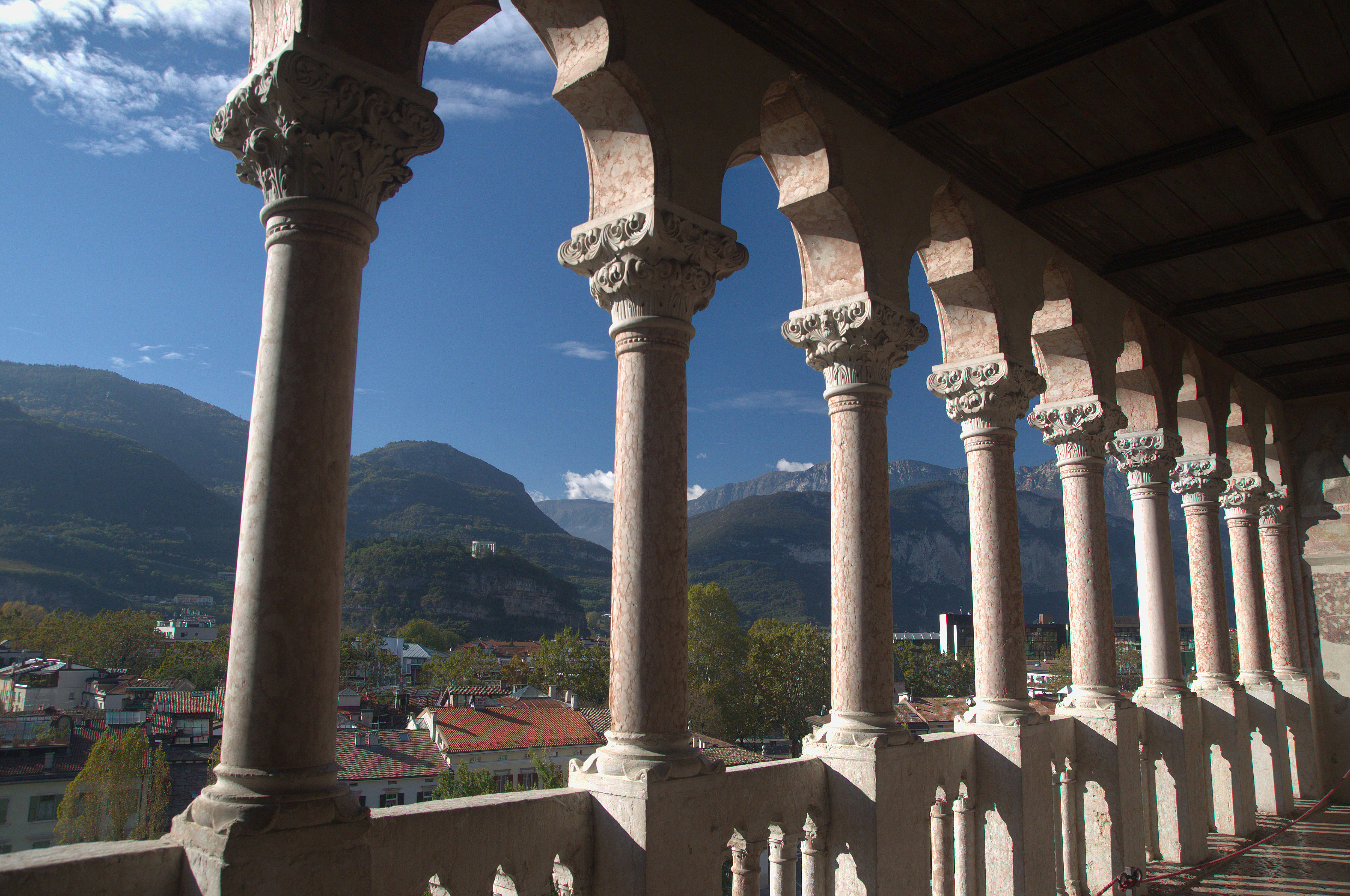 10 2014 Trento - Buonconsiglio Castle - panorama from Venetian International gothic Loggia: Hill Castion, Hill Trento, Mausoleum Cesare Battisti, Mountain Soprasasso, Mountain Terlago - ITALY - Pentax K-5 II -Tamron AF 17-50mm F2.8 - darktable - gimp - ubuntu - photo by Paolo Villa - 8907